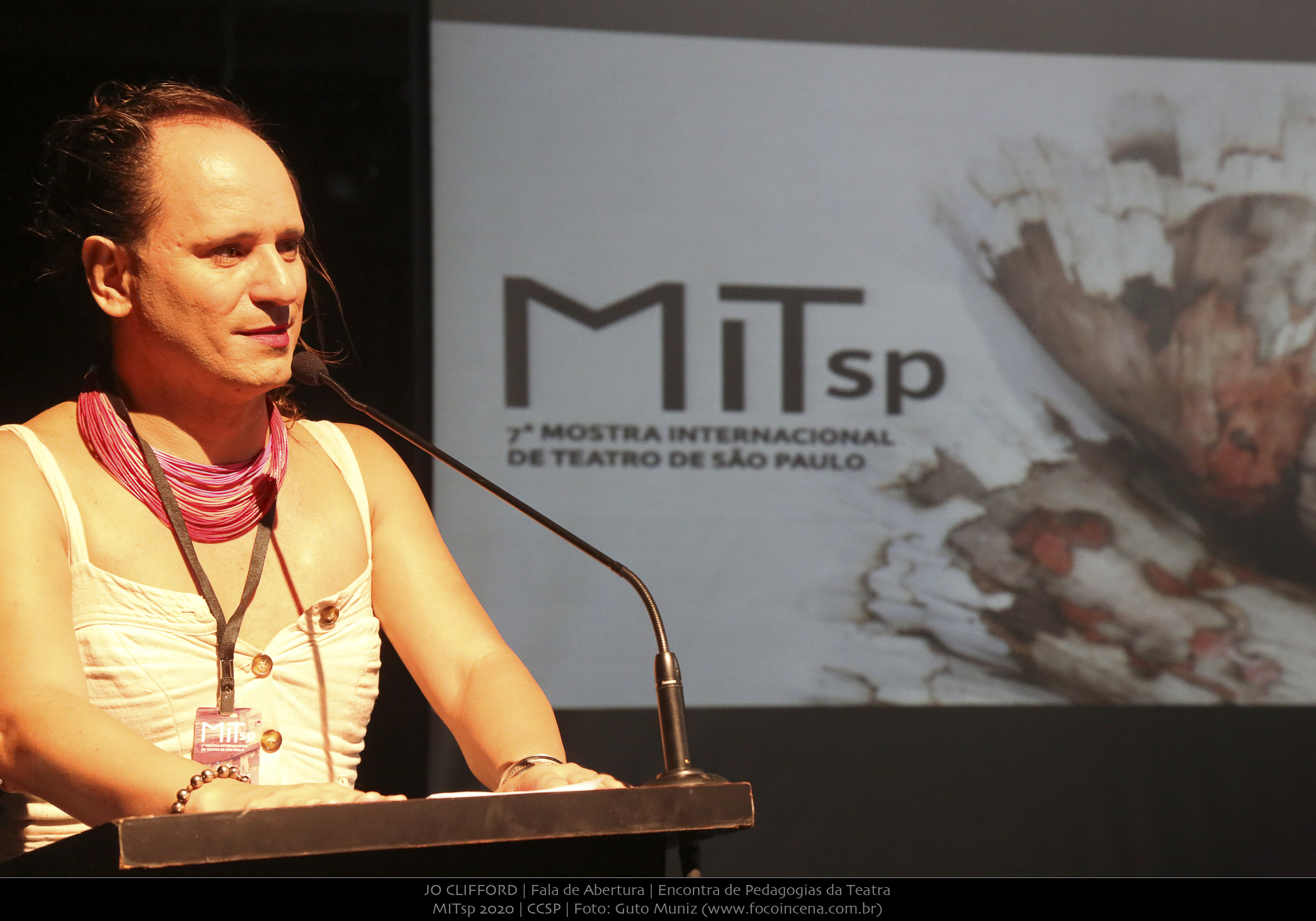 Dodi, curadora da Encontra de Pedagogias da Teatra MITsp 2020. Foto: Guto Muniz